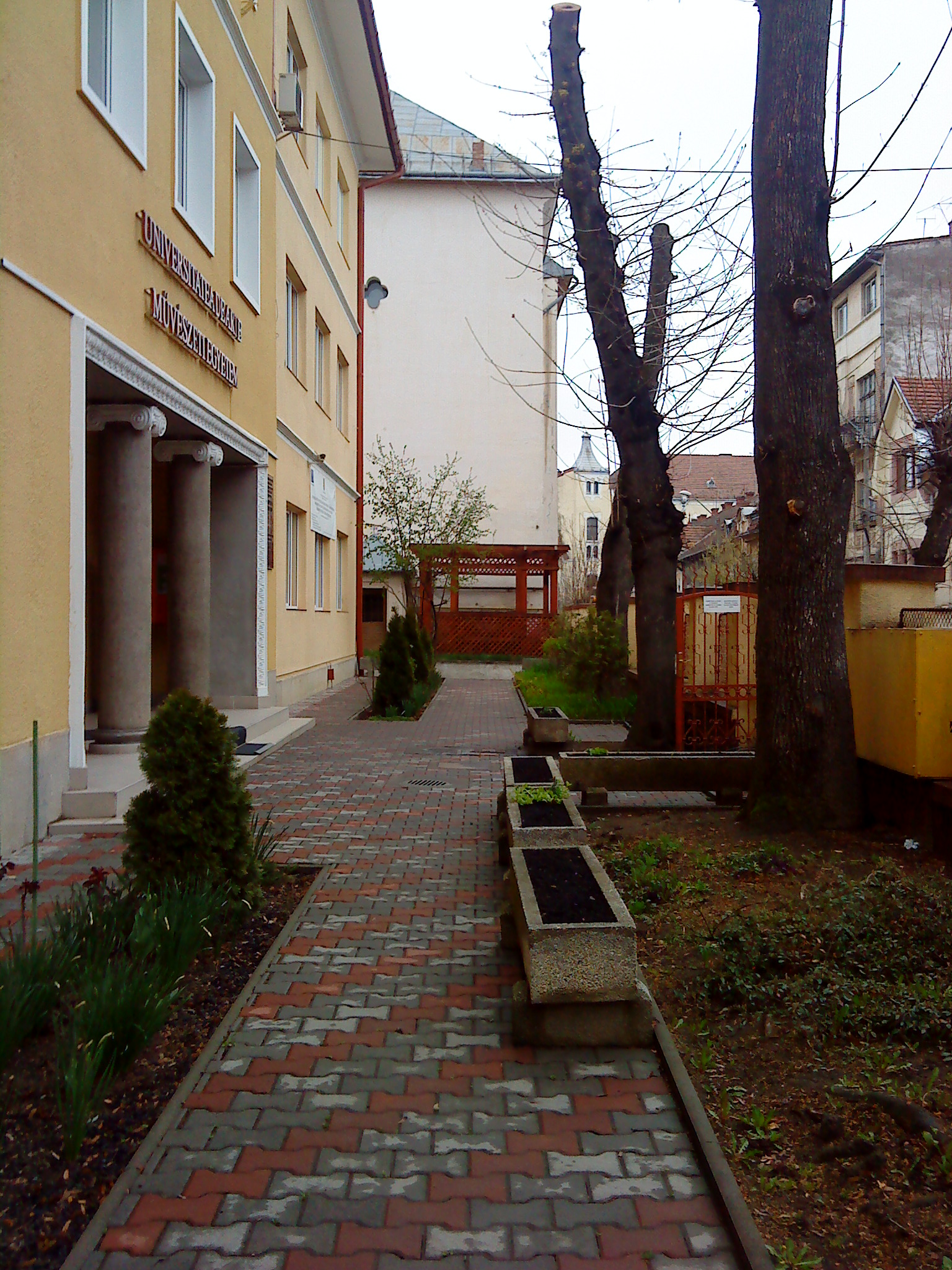 University of Arts, Targu Mures/Marosvásárhely/Neumarkt am Mieresch